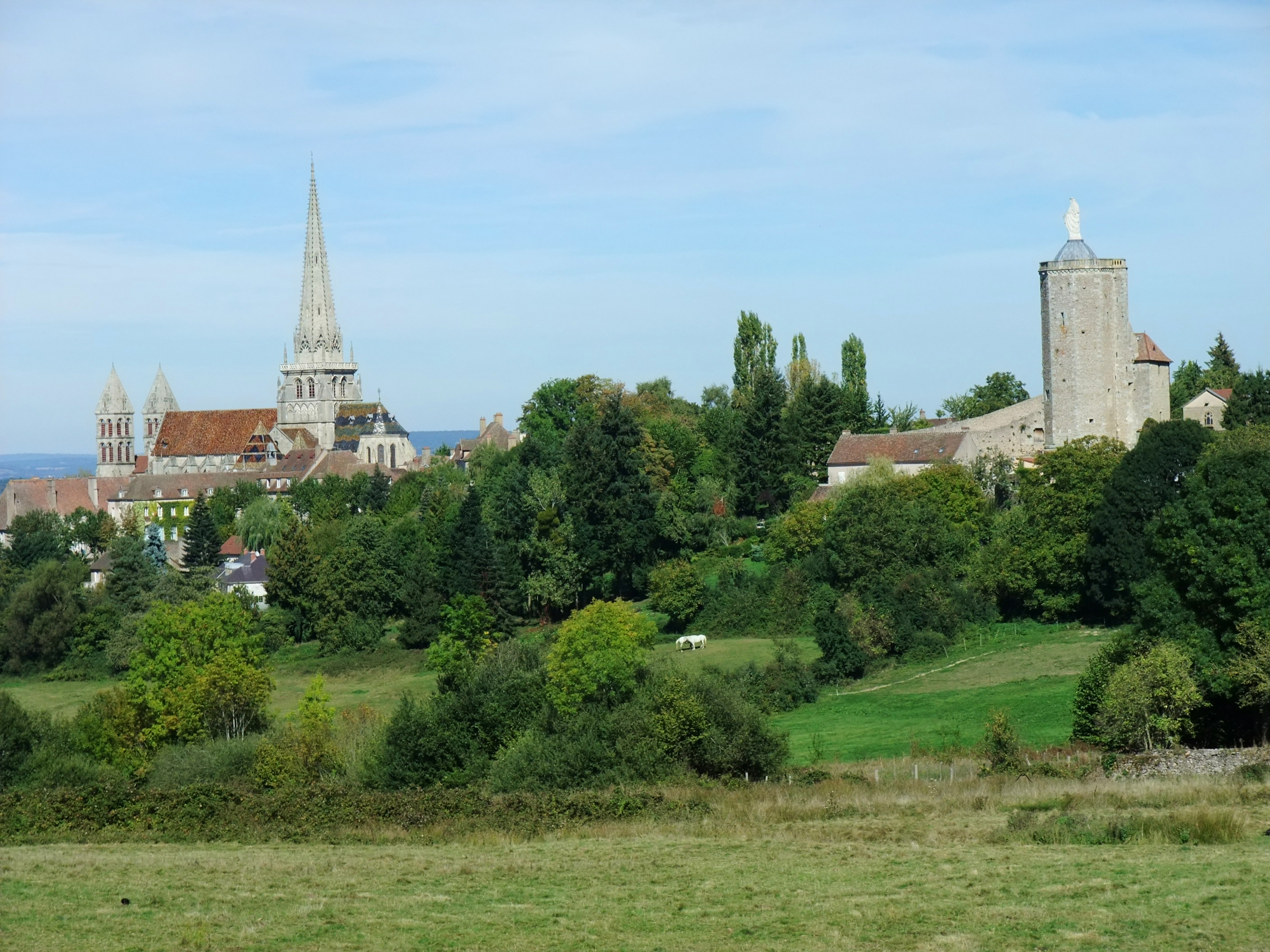 Cathedral and Tour des Ursulines in Autun, Burgundy, France